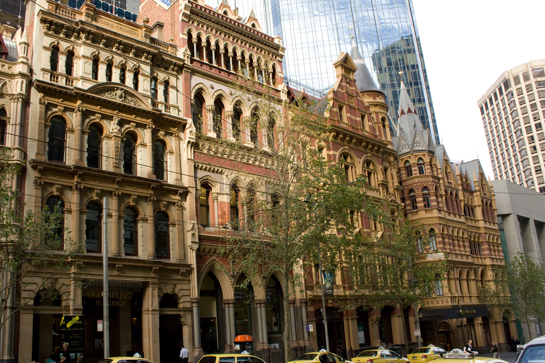 Older fleet buildings, Collins Street